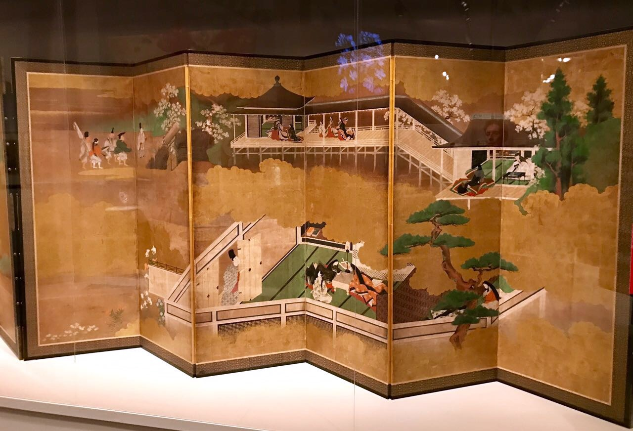 Scenes from The Tale of Genji, one of a pair. Place of Origin: Japan Date: approx. 1700–1800 Historical Period: Edo period (1615-1868) Object Name: Six panel folding screen Materials: Ink, colors and gold on paper Dimensions: H. 60 3/8 in x W. 137 3/4 in, H. 153.4 cm x W. 349.9 cm Credit Line: The Avery Brundage Collection Department: Japanese Art Collection: Painting Object Number: B60D47+